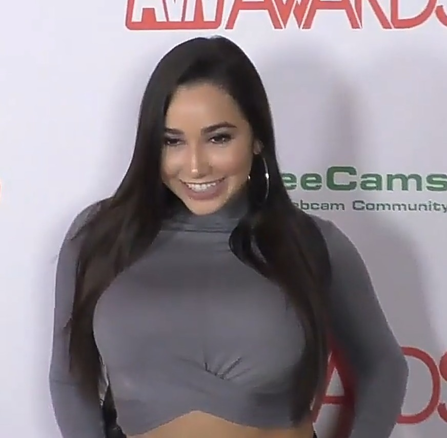 Karlee Grey at the 2017 AVN Awards Nomination Party at Avalon Nightclub in Hollywood